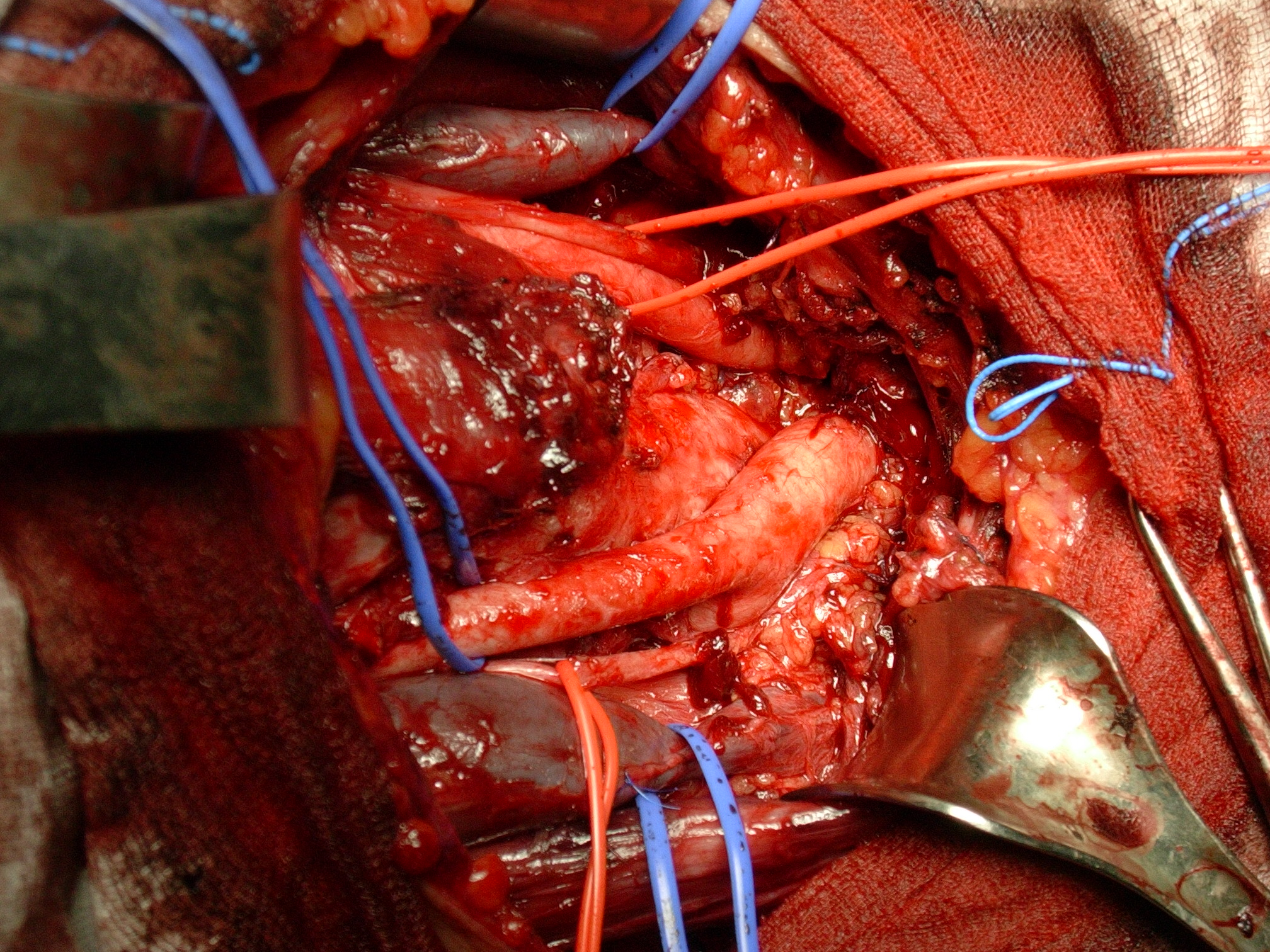 intraoperative pic showing arteries and veins of neck district.